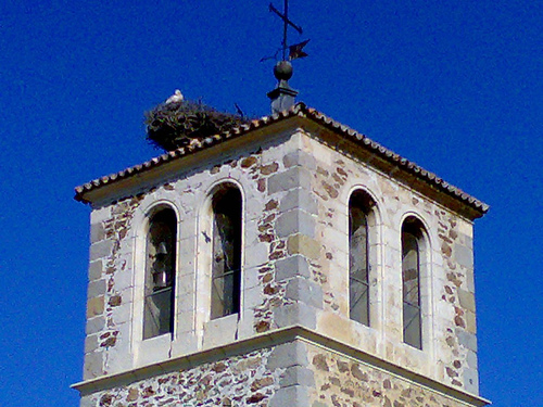 Tower of the Church of Santa María del Castillo. Canencia, Community of Madrid, Spain